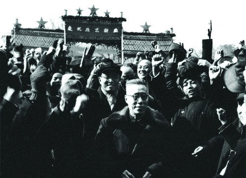 Communists taking over Yenching University, Feb 12, 1951. After this, the link between Yenching Univ. and churches was cut off and Yenching Univ. became a public university governed by the PR China government.